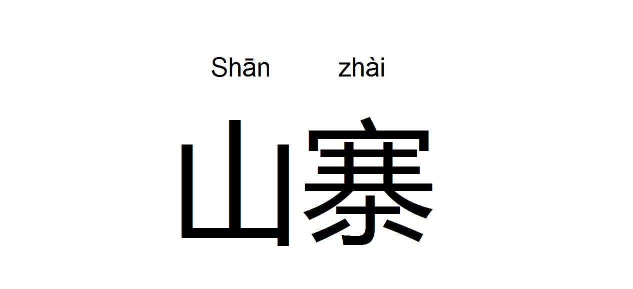 For PC's that don't have correct multilingual support for Chinese language.